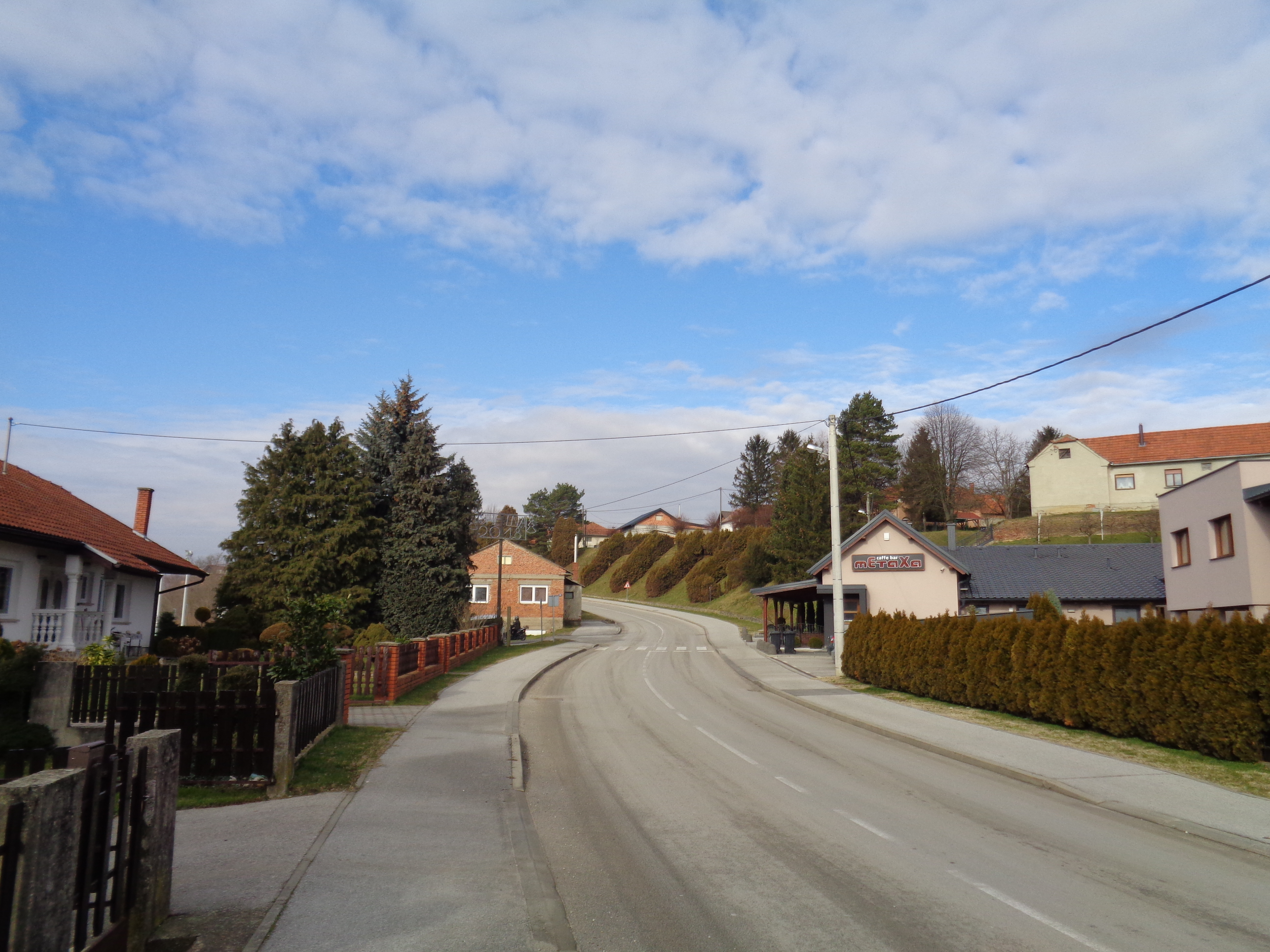 Mihovljan (Međimurje County, Croatia)